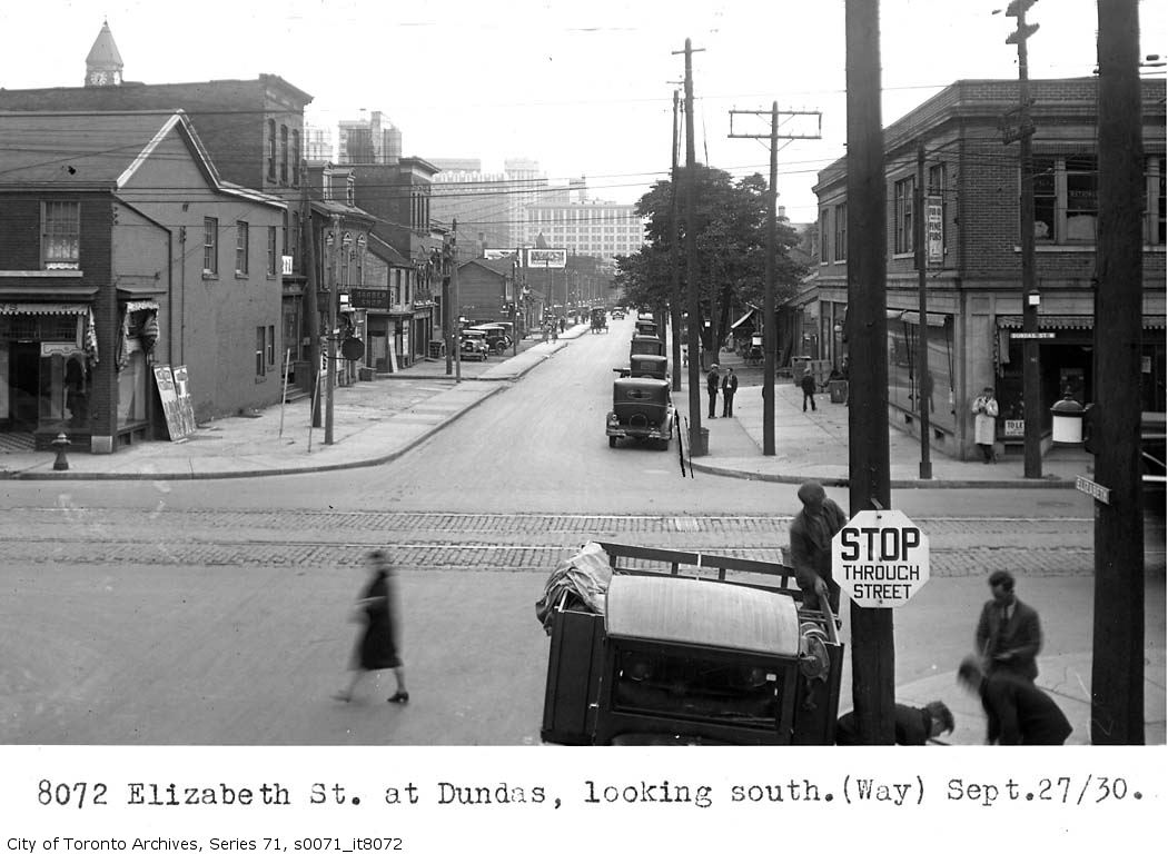 The following is the author's description of the photograph quoted directly from the photograph's Flickr page. " Photographer: Alfred Pearson September 27, 1930 City of Toronto Archives This image is available from the City of Toronto Archives, listed under the archival citation Series 71, Item 8072. This tag does not indicate the copyright status of the attached work. A normal copyright tag is still required. See Commons:Licensing for more information. "